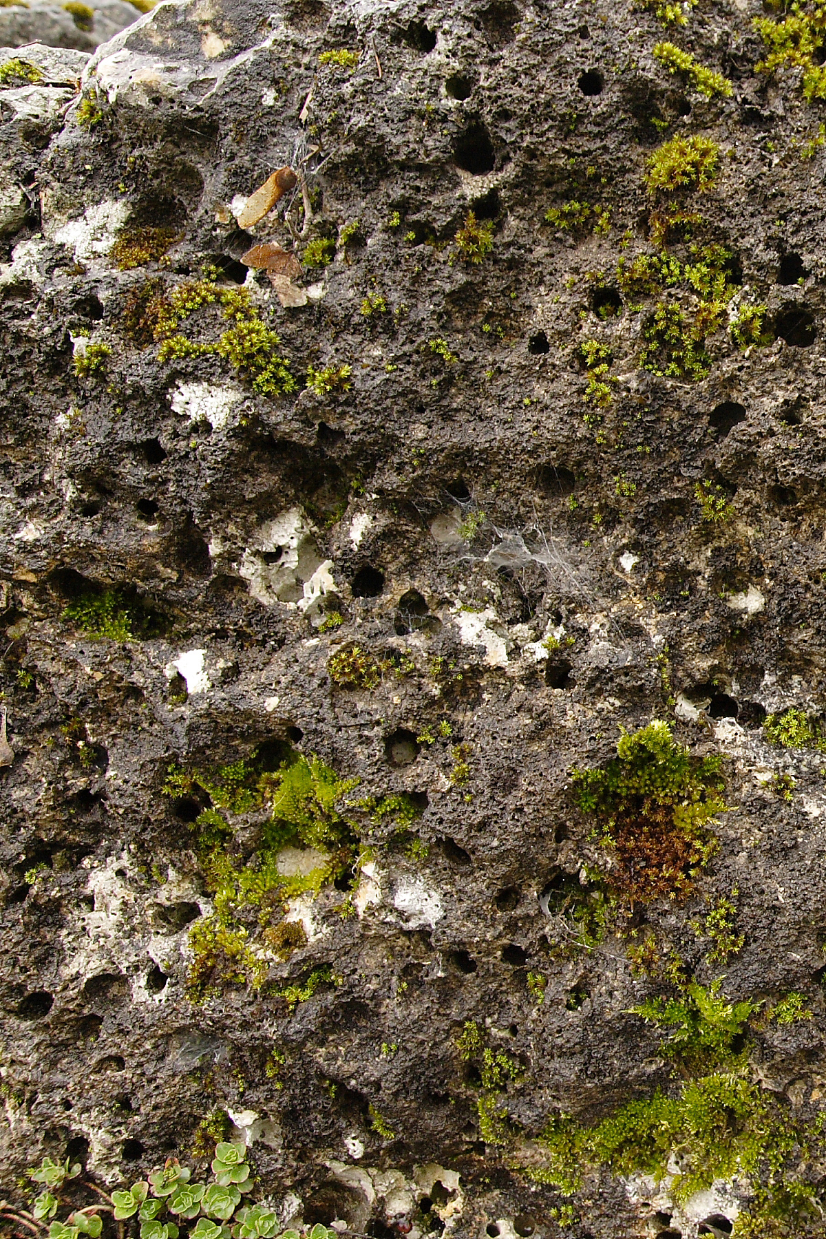 Tubular burrows of marine bivalve mollusca (Pholadidae). They use a teethy shell to grind away at rock to create tubular burrows. The type area is a Naturdenkmal in the village Heldenfingen, (Gerstetten, Eastern Alb). It denominates the rocky cliff of the Lower Miocene sea („Upper Marine Molasse “ of the Molasse basin), which is documented across the Swabian Alb from west to east. The Pholad borings, measure 0,5-2 cm at the top of the rock and 3 cm at the bottom. The borings obviously represent several generations.